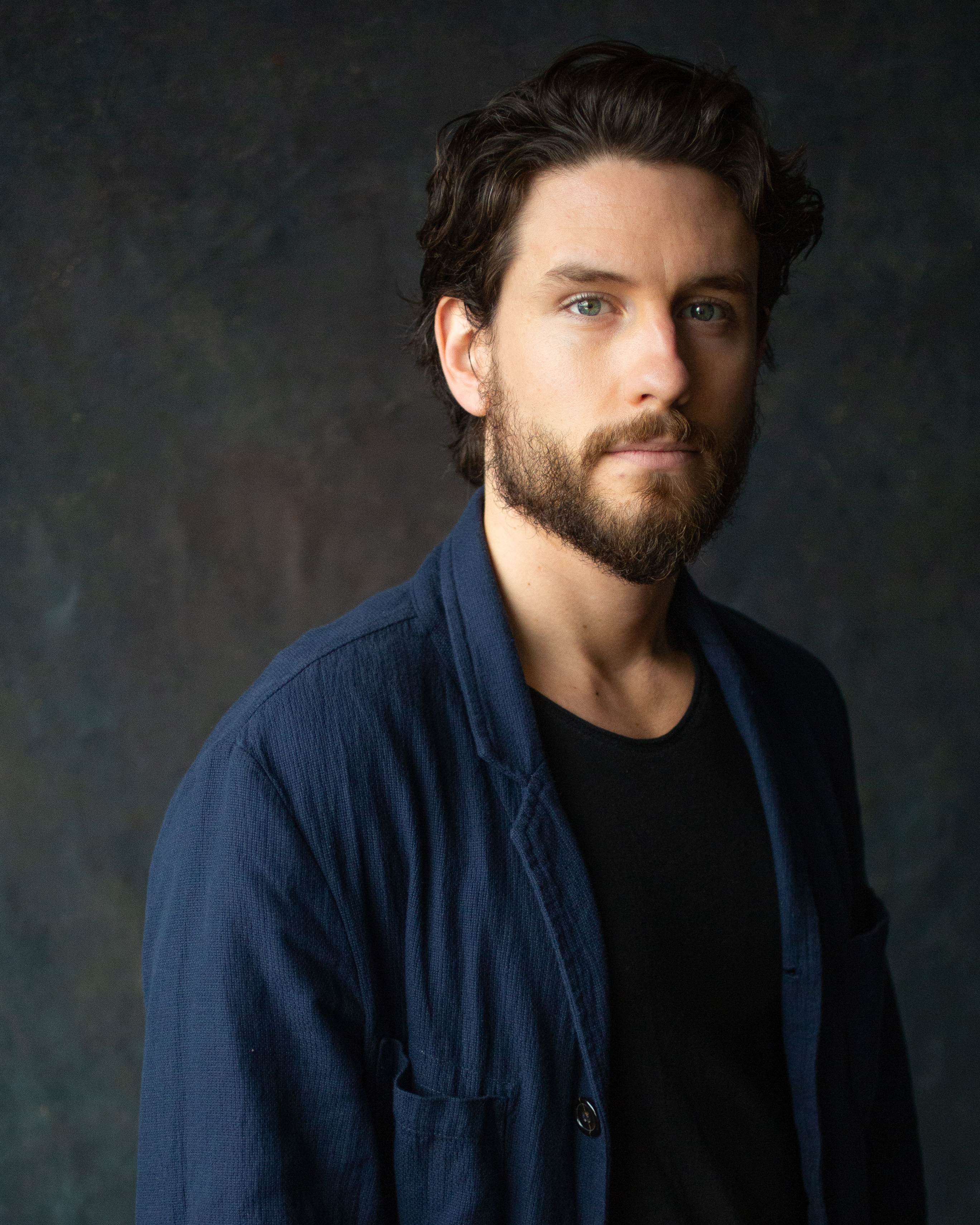 A portrait of the British actor Bart Edwards in my studio in South London.